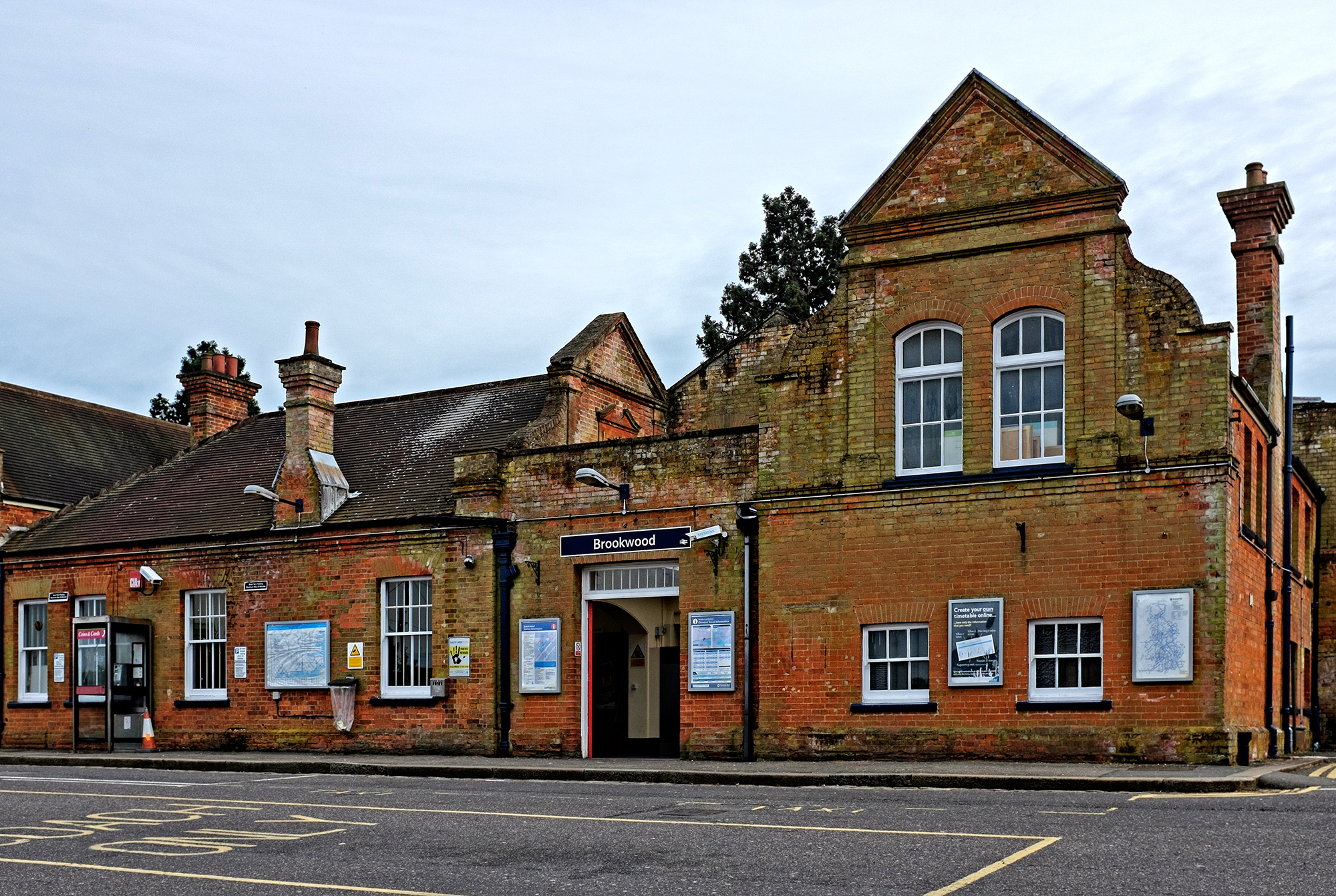 Brookwood Station Exterior